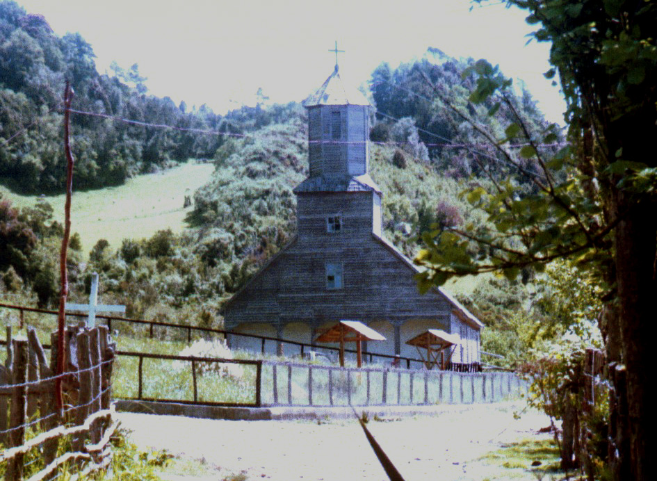 Church of Detif, Lemuy Island, Chiloé